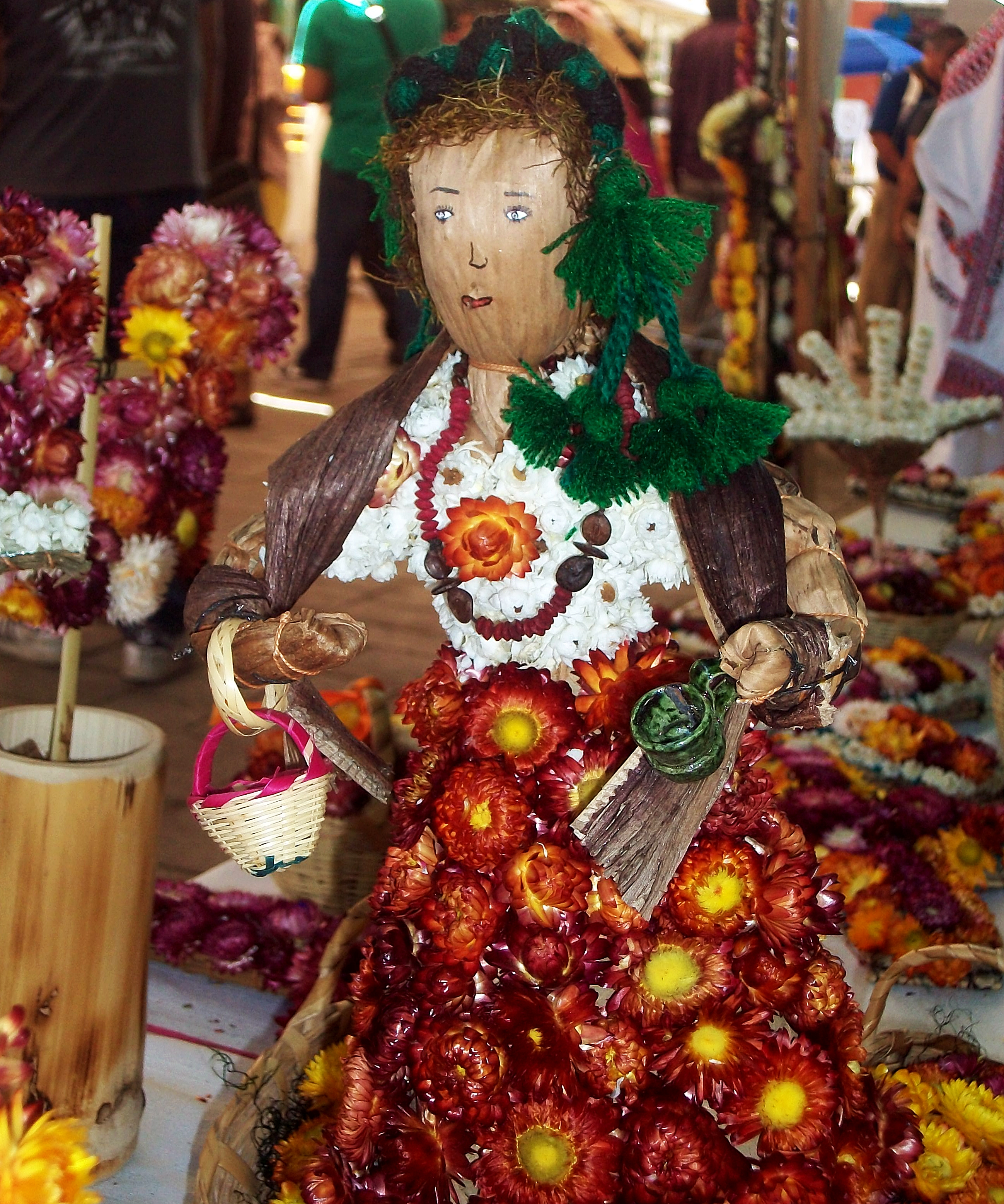 Canastas de calenda vestidos de flor inmorta